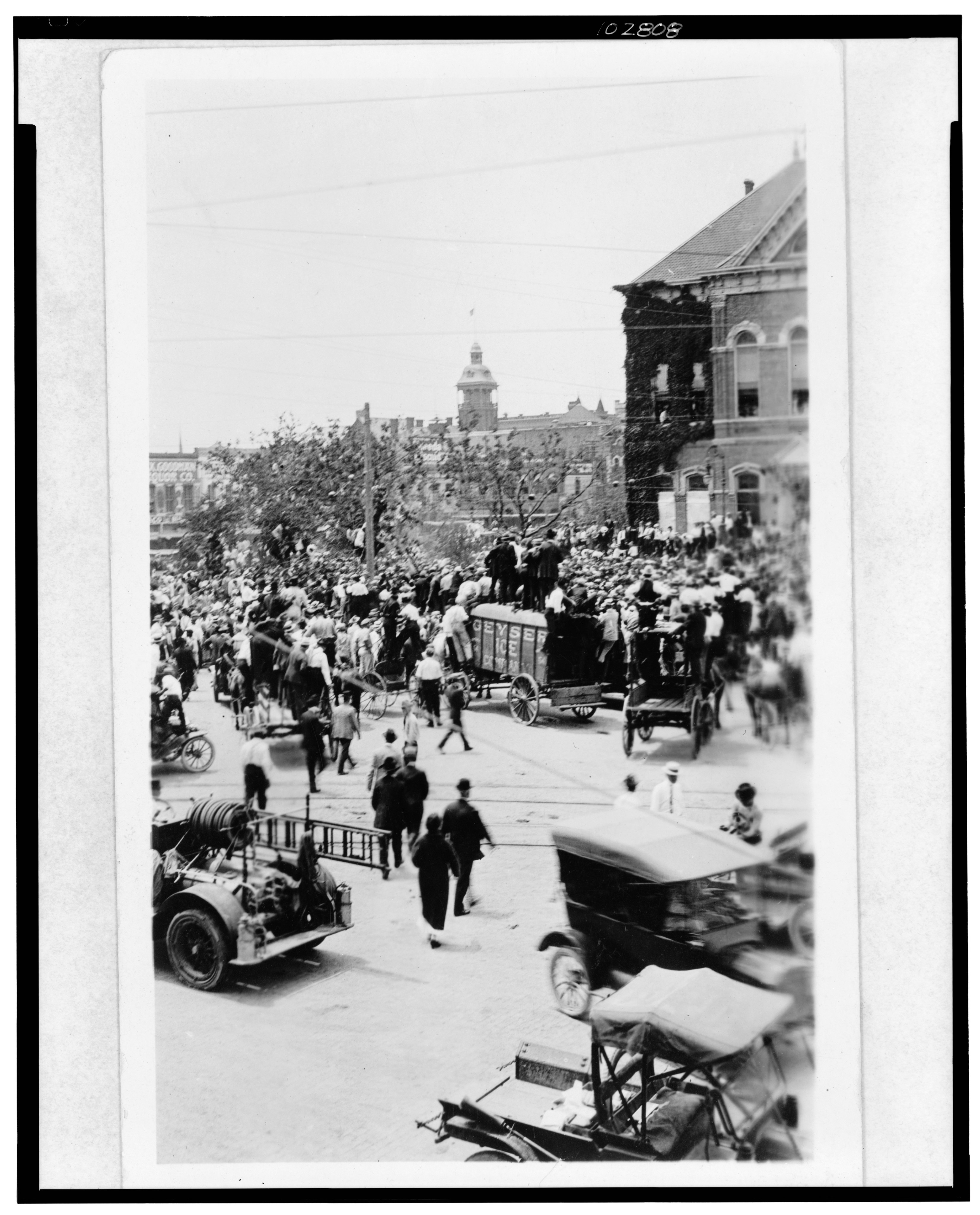 Title: Crowd gathering in street to watch the lynching of Jesse Washington, Waco, Texas Abstract/medium: 1 photographic print (postcard)